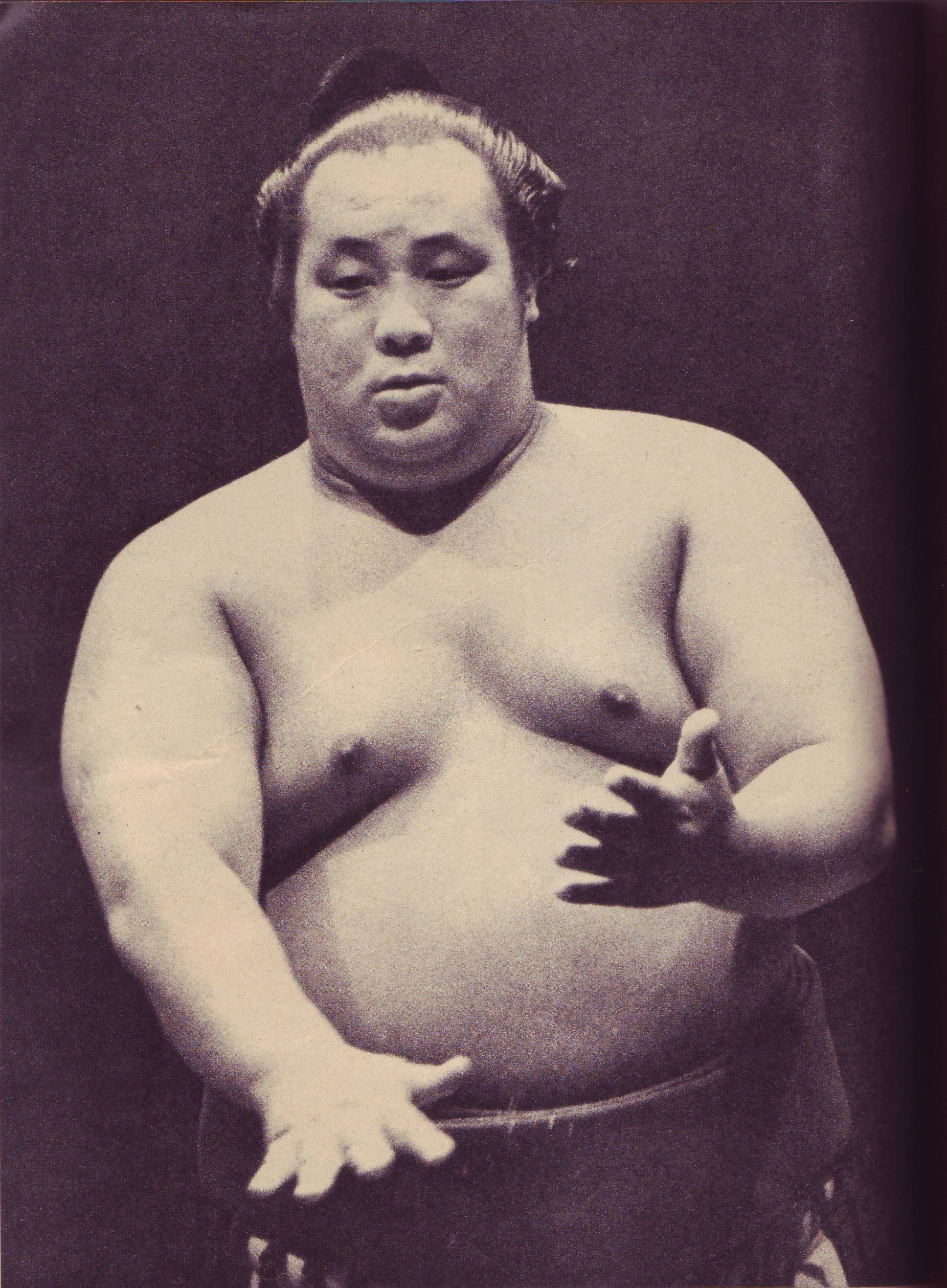 Wakahaguro Tomoaki (taken in 1959, or before that)